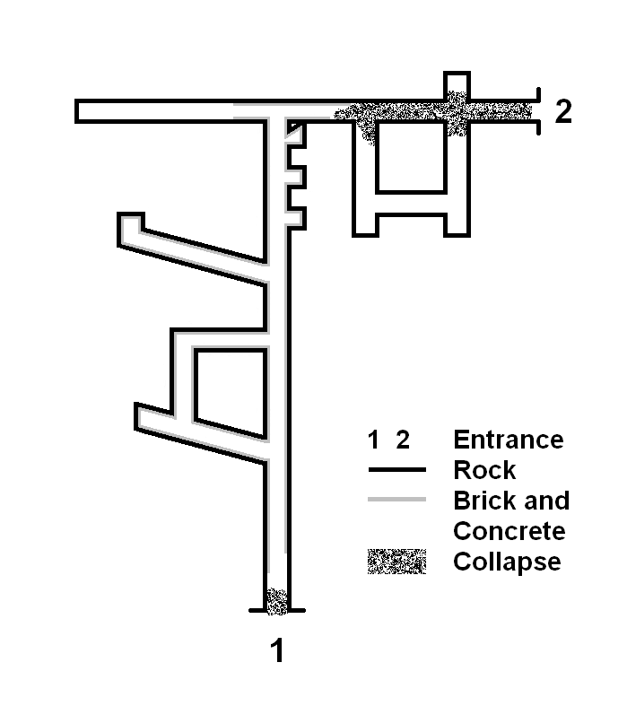 Diagram of the underground air raid shelter in the town of Głuszyca. See: Project Riese.